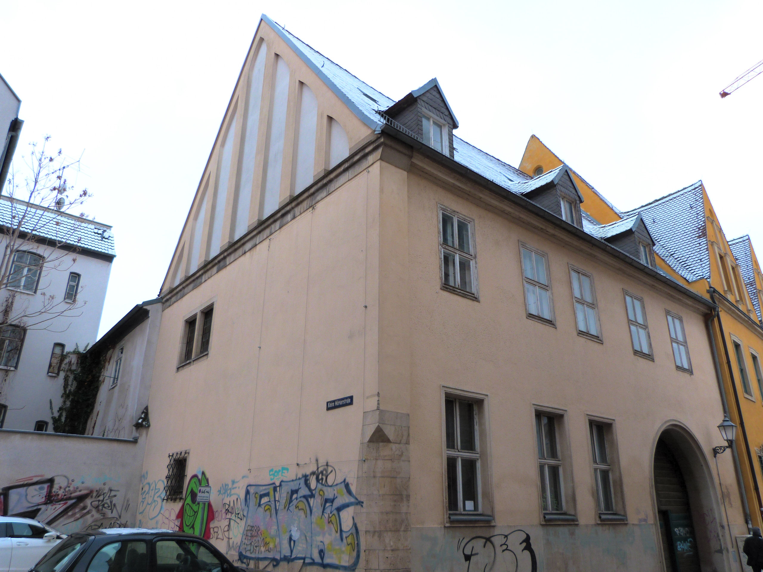 House No. 9 Grosse Märkerstrasse in Halle (Saale)